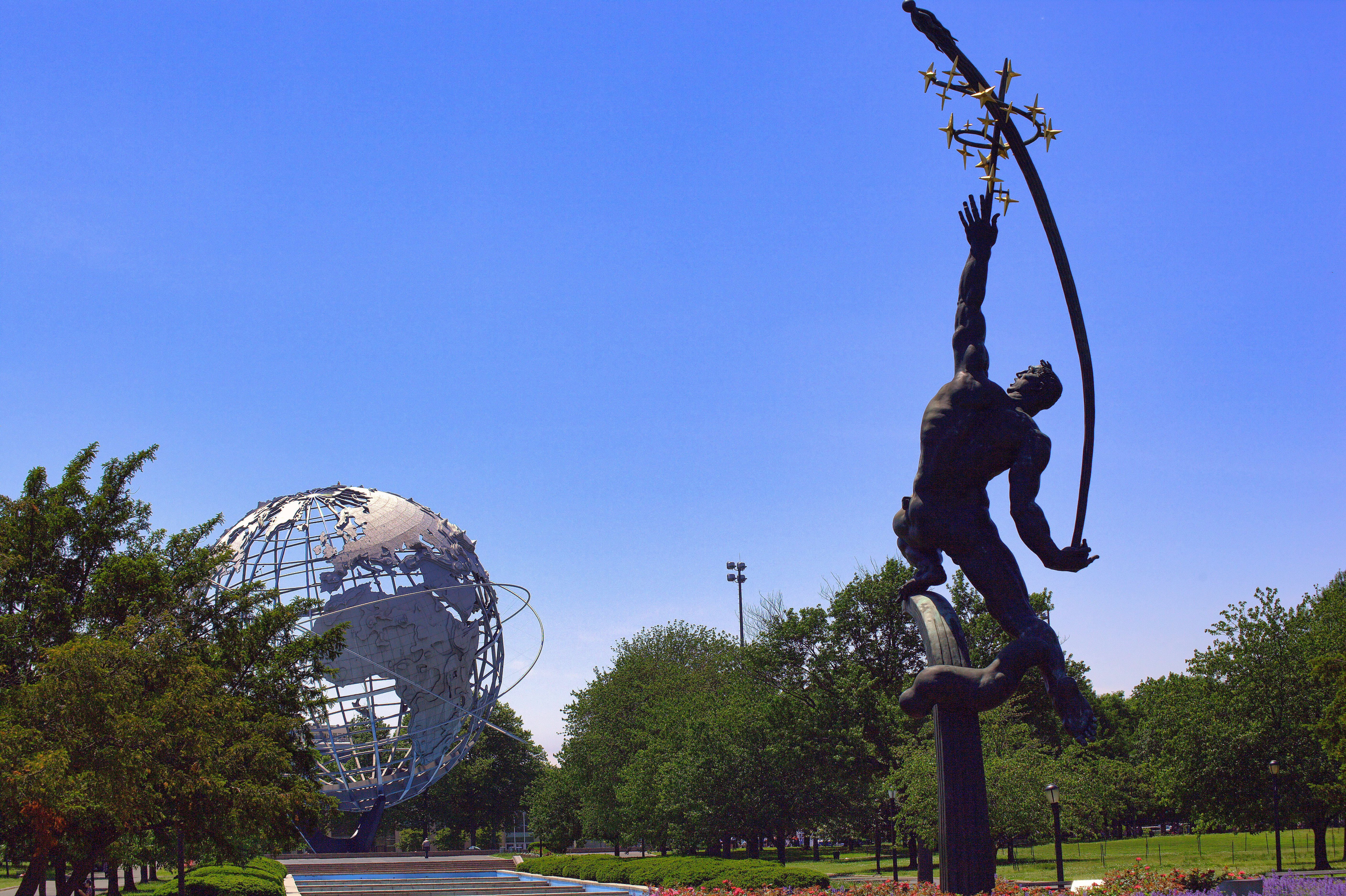 1964 Worlds Fair, Flushing Meadows-Corona Park